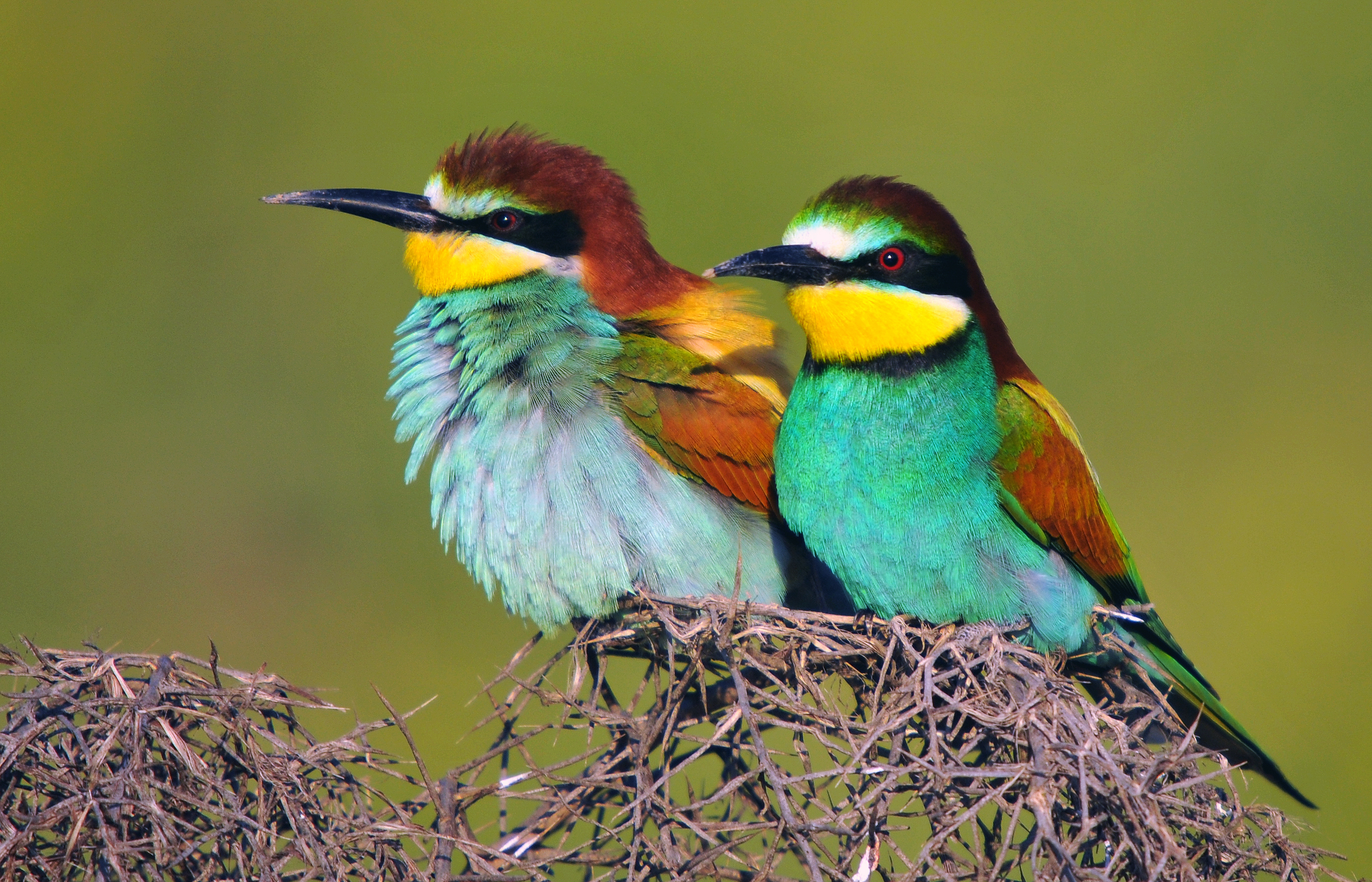 European Bee-eaters, (Merops apiaster), in Diyarbakır, Northern Kurdistan, Turkey.